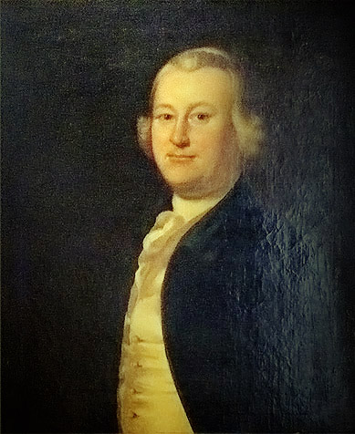 Portrait of James Otis (1725-1783)